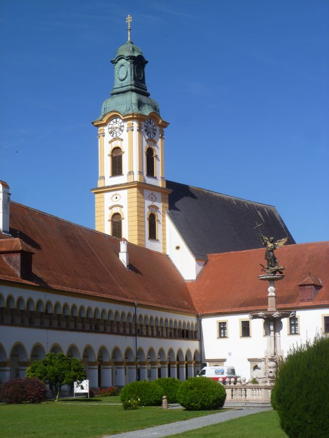 Stiftspfarrkirche hl. Michael